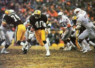 A football card from the 1986 Jeno's Pizza NFL football card stickers set of Green Bay Packers running back Eddie Lee Ivery rushing the ball against the St. Louis Cardinals in the 1982 NFC First Round Playoff Game on January 8, 1983.